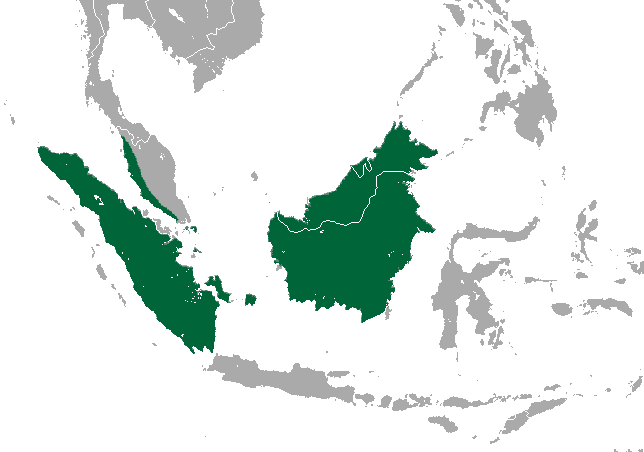 Silvery Lutung (Trachypithecus cristatus) range